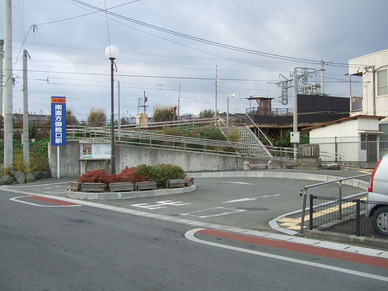 Minami-Nogata Gotenguchi Station on the Heisei Chikuho Railway Ita Line in Nogata City, Fukuoka Prefecture, Japan